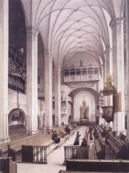 The interior of the Thomaskirche in Leipzig, before its restoration in 1885. The organ loft is on the left. Engraving by O. Kutschera after a watercolour by Hubert Kratz